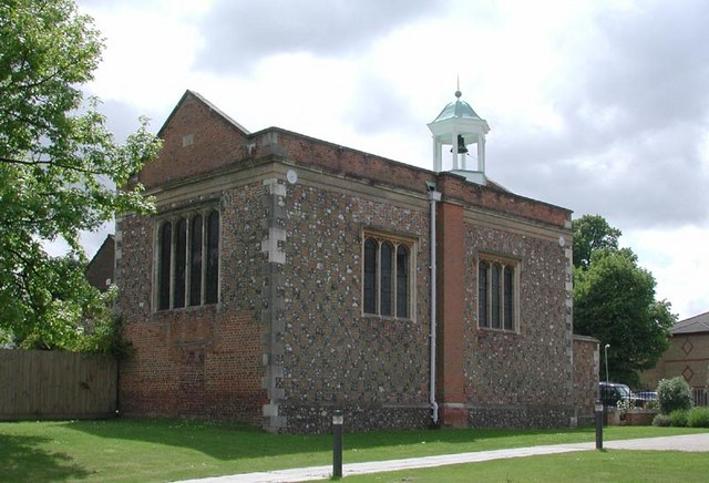 Oxhey Chapel, Herts